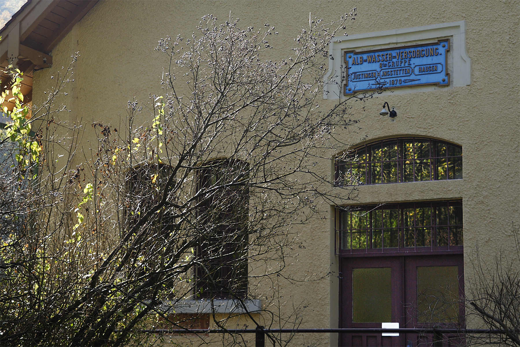 First pumping station and cast iron pipes ever for communities oft he Swabian Alb. An engineer of Stuttgart planed and realised the first water supply system for three nearby villages in 1870. The water was pumped from rivulet Schmiech at “Teuringshofen” (see also photo: Image:Die Schmiech beim ehemaligen Pumpwerk Teuringshofen.jpg). Eleven years later eight groups of villages had similar supply systems.